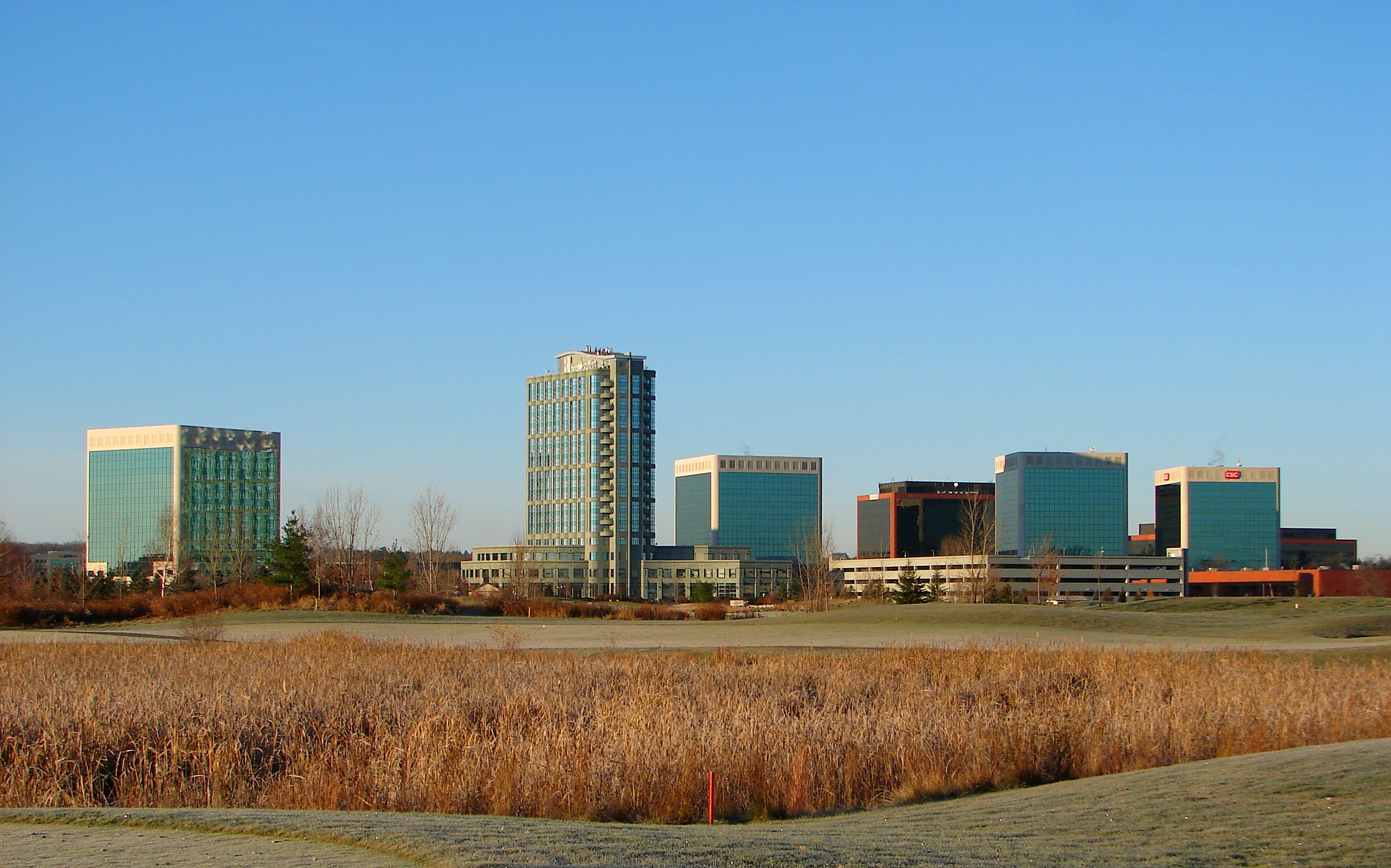 Skyline of Kanata Research Park and Brookstreet Hotel with Marshes Golf Club in foreground, City of Ottawa, Ontario, Canada